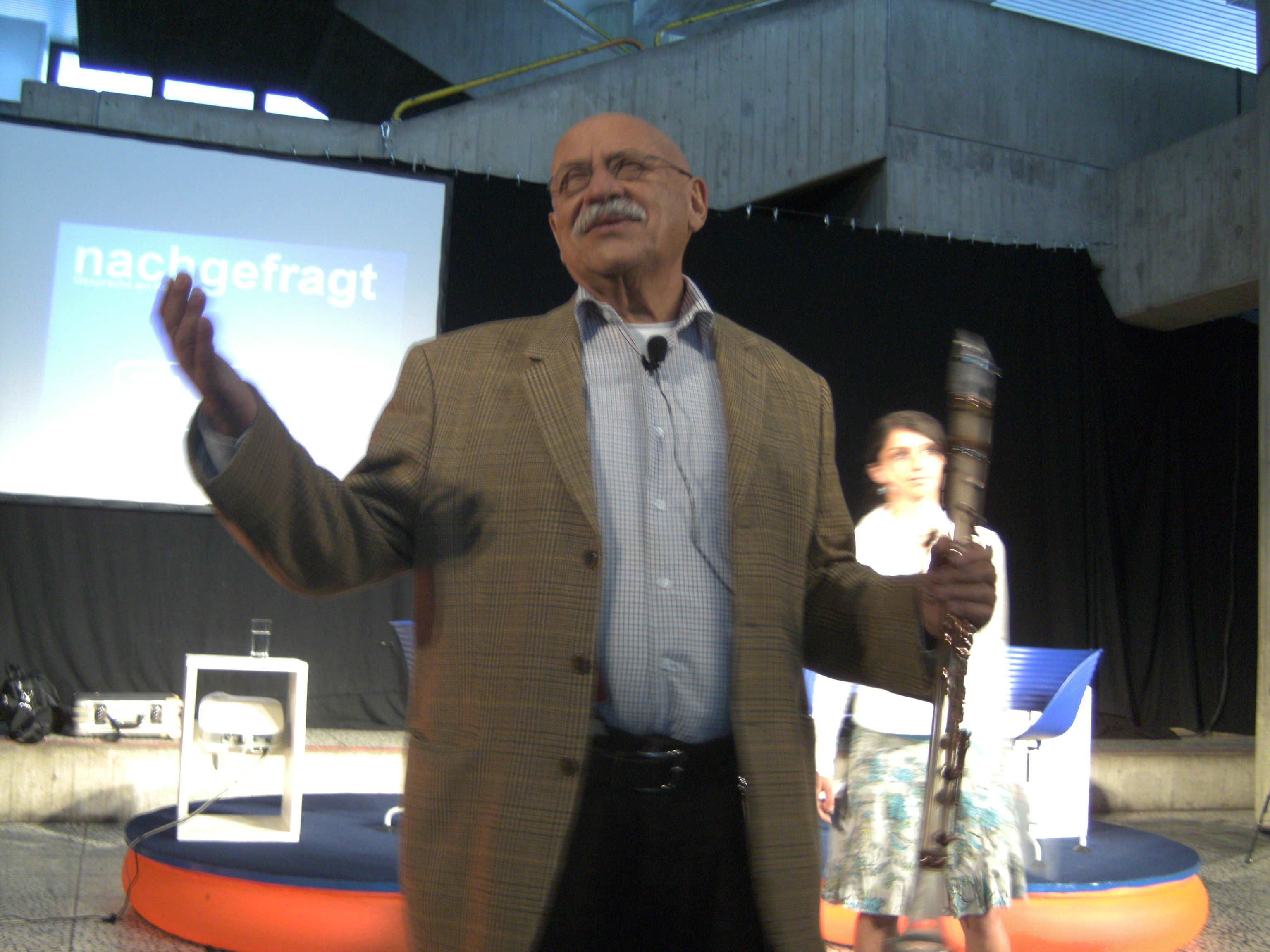 Giora Feidman with his clarinet. In the series "nachgefragt" (Pupils interview VIPs). Rotteck Highschool, Freiburg, Germany 16 May 2009